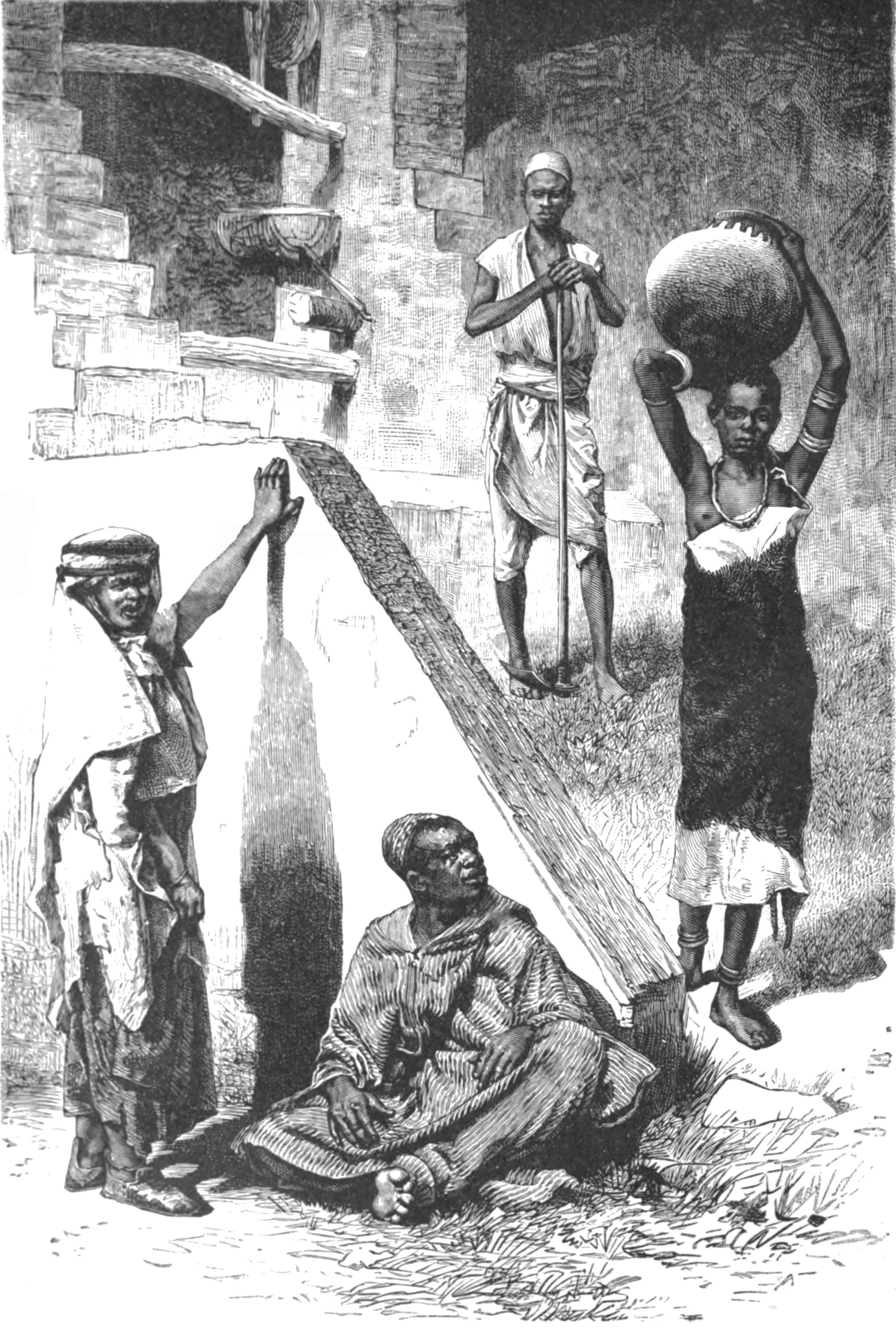 Arabs, Sudanese negro, and female Shilluk slave